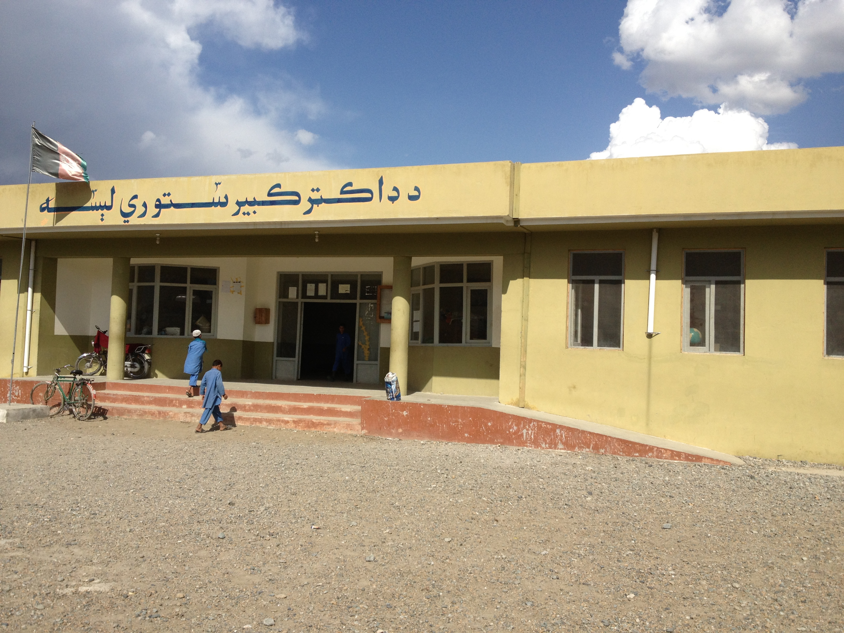 Dr. Kabir Stori Lycee in Khas Kunar, Afghanistan - 2013